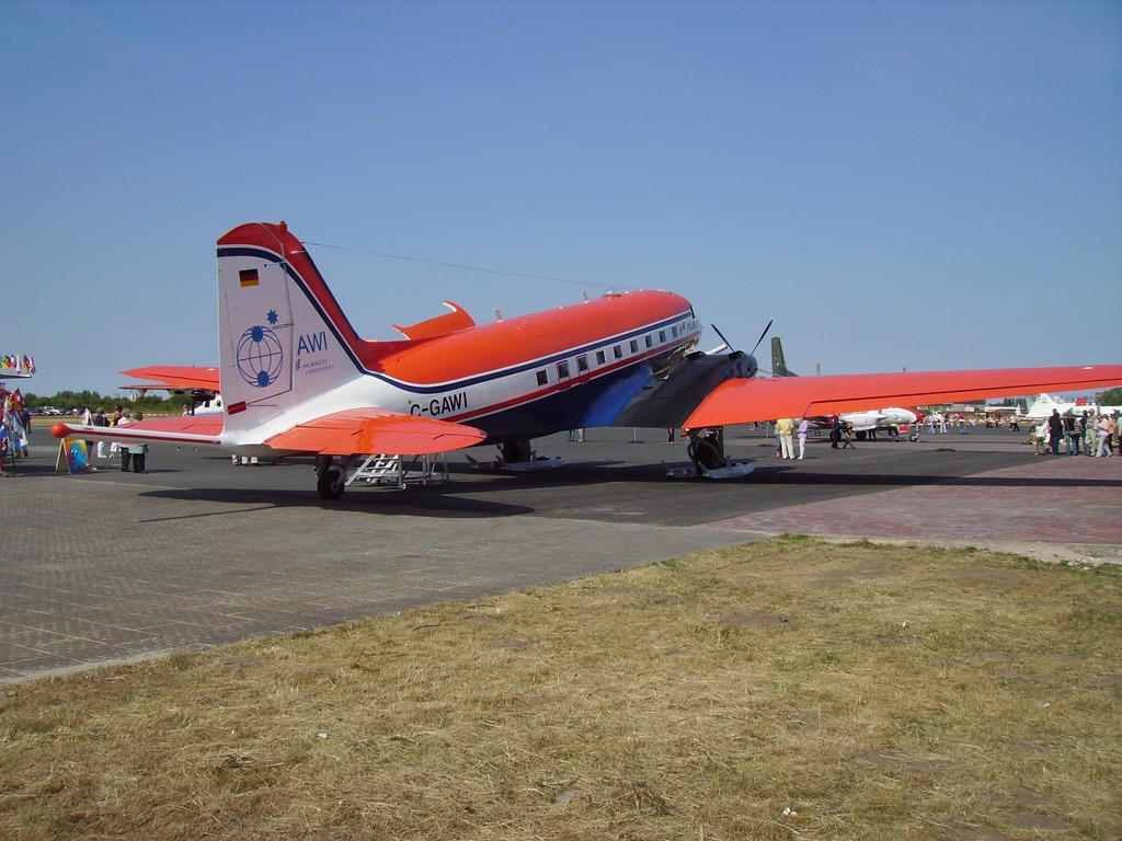 The "Polar 5" is a Basler BT-67 aircraft used by the German Alfred Wegener Institute for Polar and Marine Research